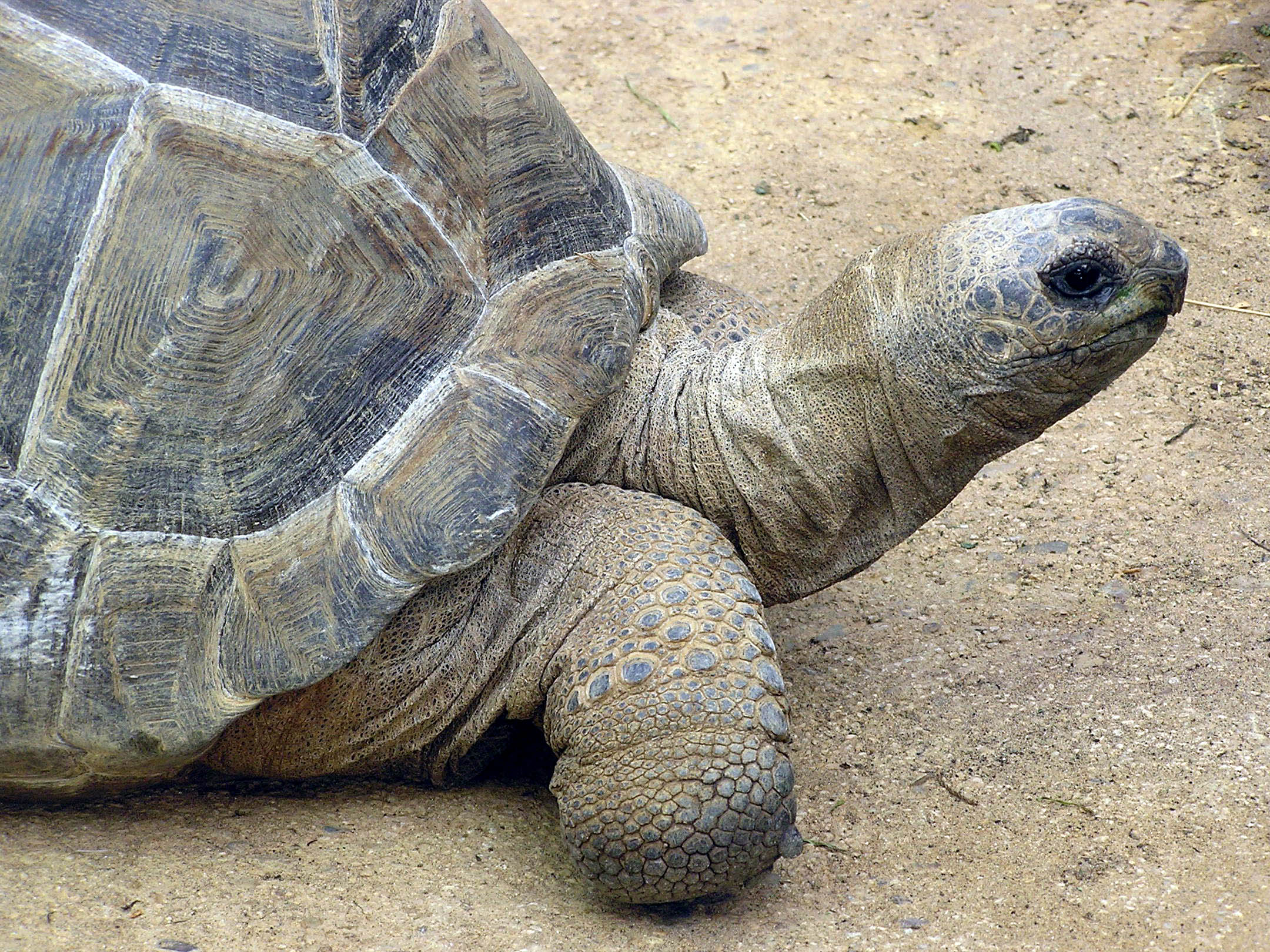 Aldabra Giant Tortose Geochelone gigantea at Bristol Zoo, England. The Zoo uses Dipsochelys dussumieri on its signboard but this name might be superseded.